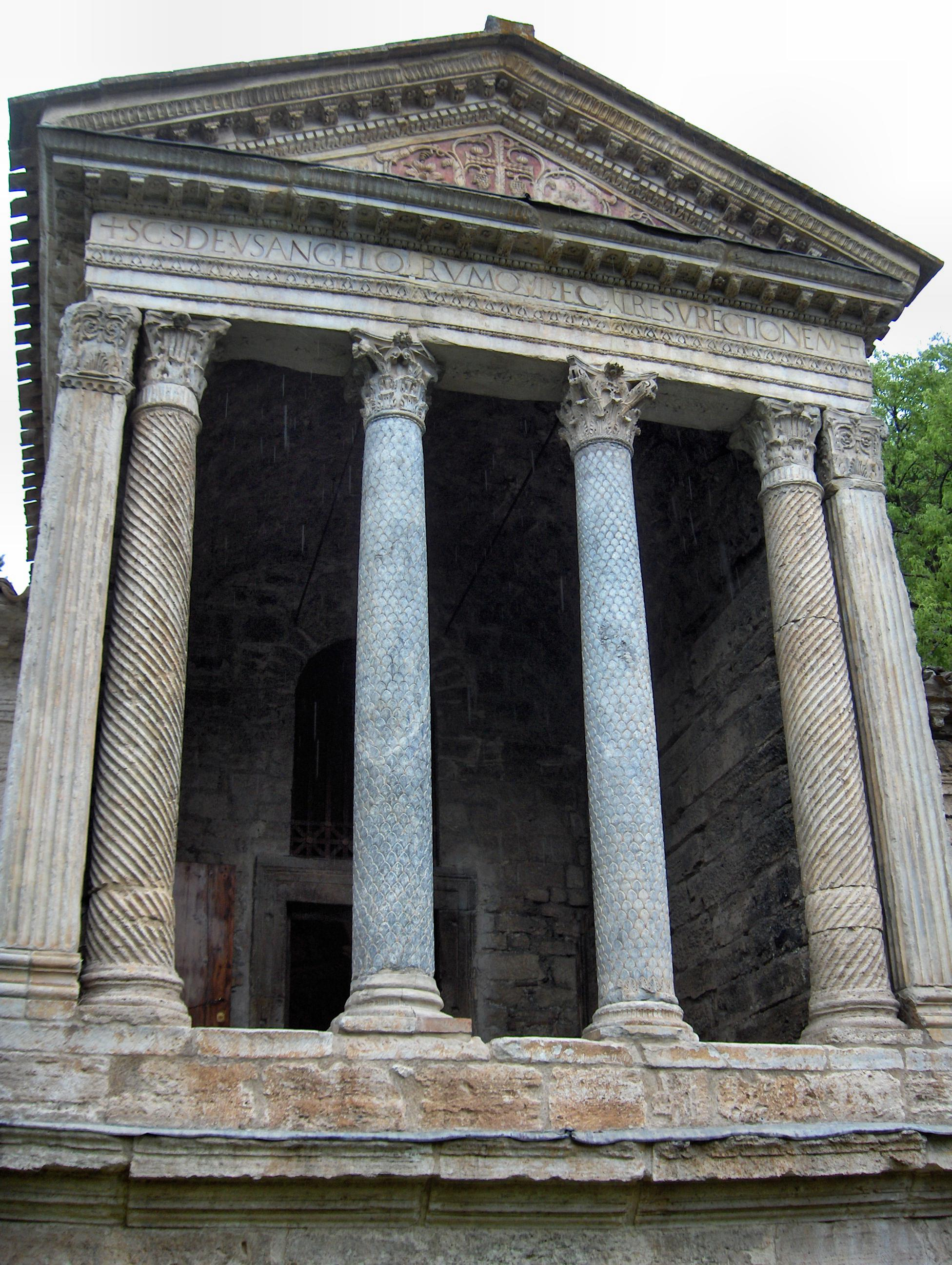 The former Roman temple dedicated to the river god Clitumnus and transformed into an early-Christian church (probably in the fourth century); located in Campello sul Clitunno, south of Trevi, Italy.